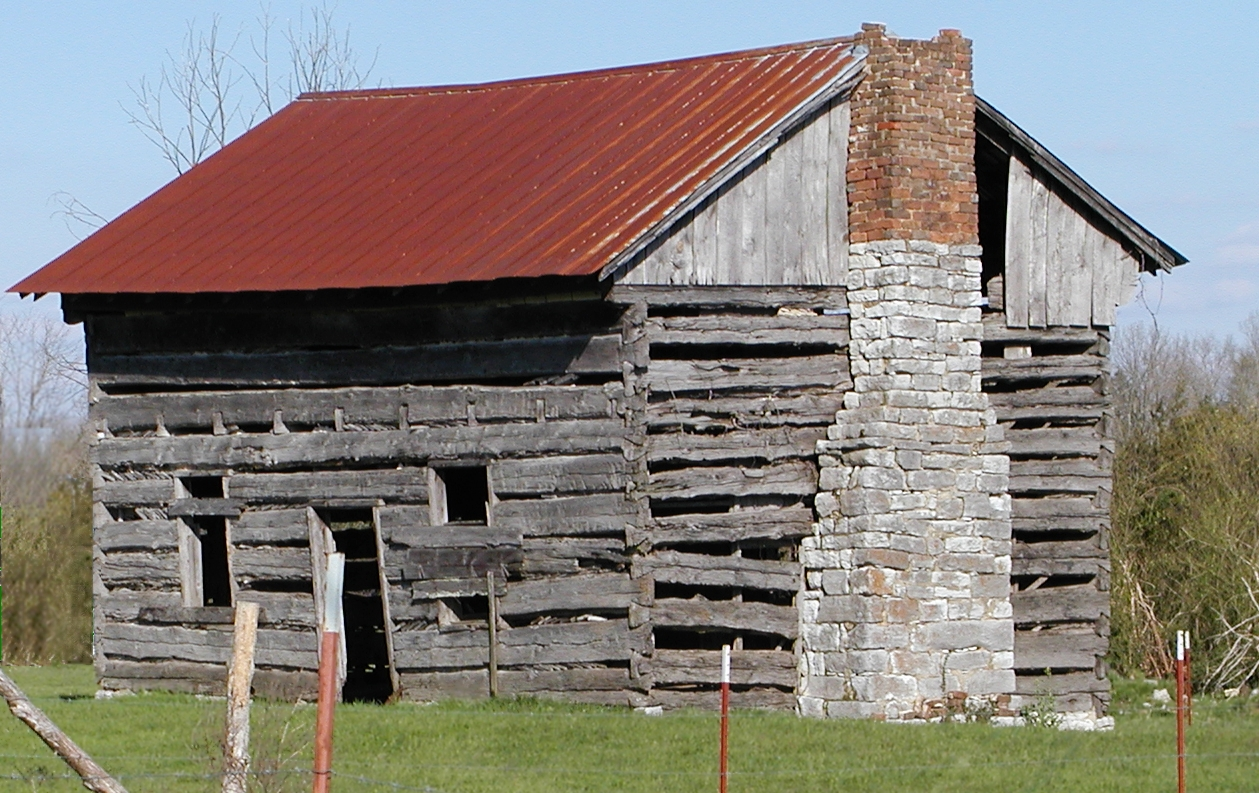 Log house near Ten Mile